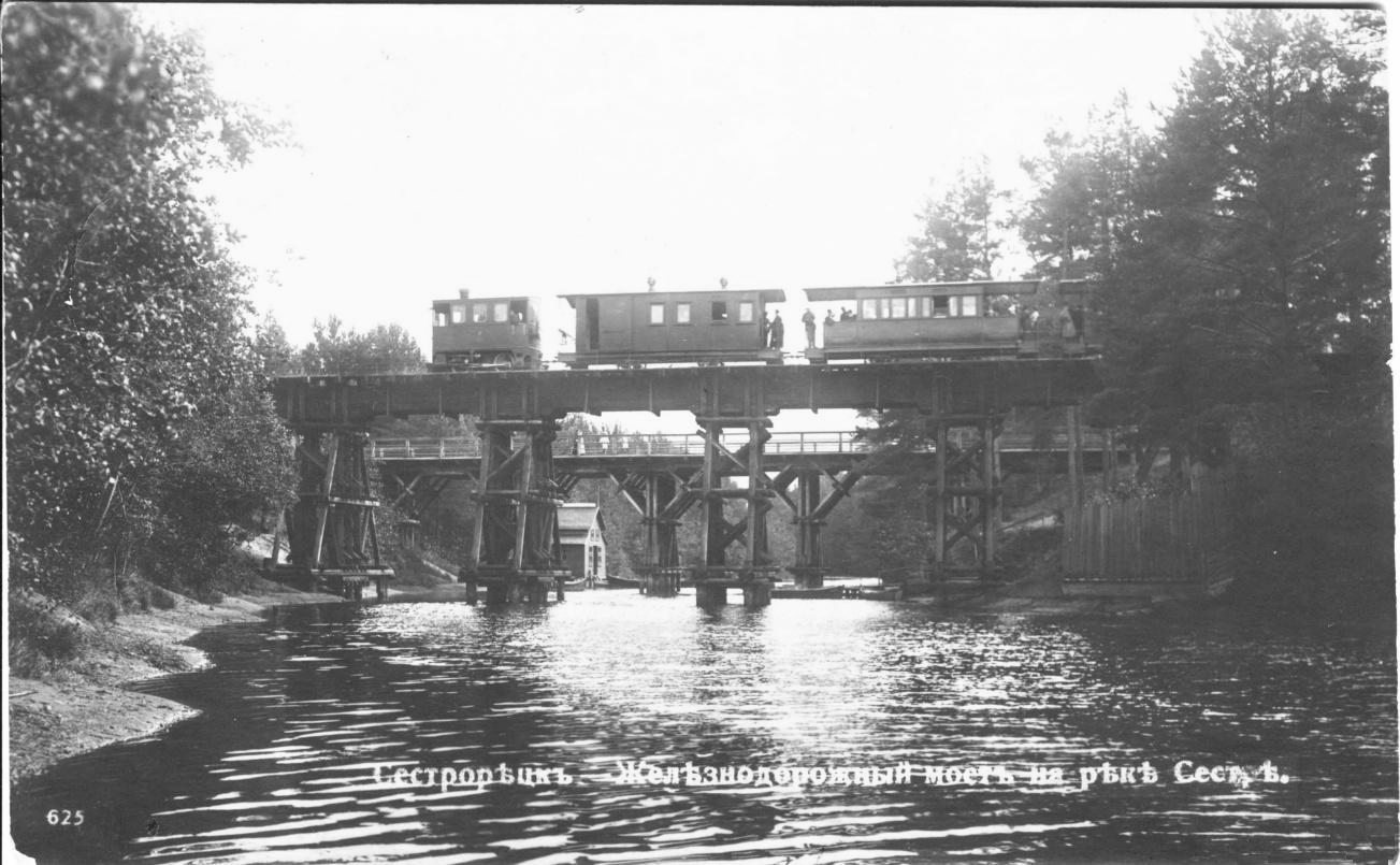 Zavodskaya sestra crossover in Sestroretsk (Russia). 1900s photo